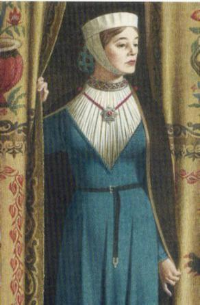 Margaret II of Flanders